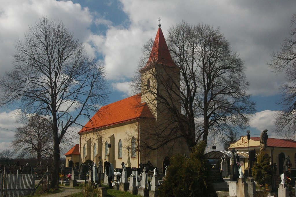 Šelpice, Jesus Christ church